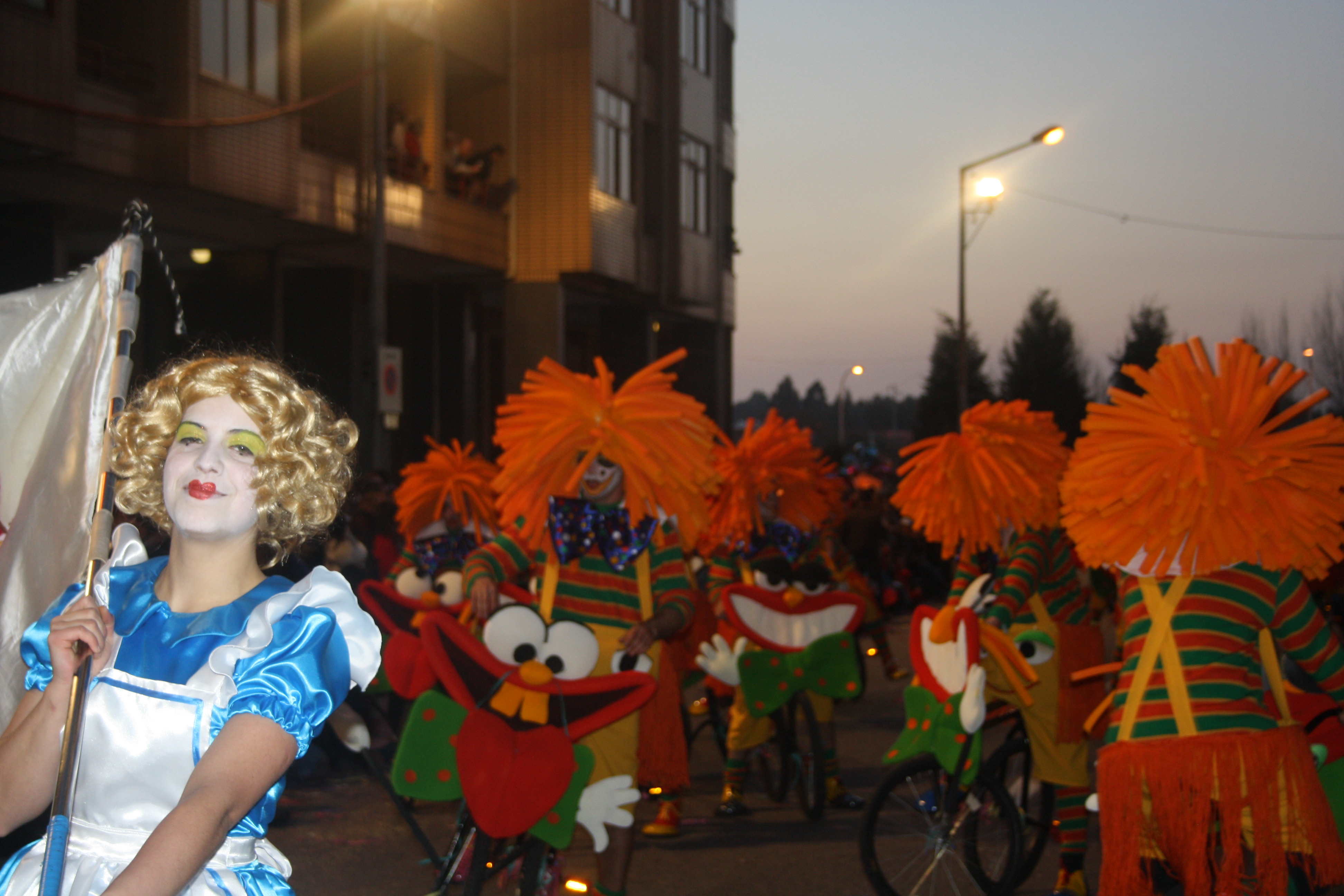 Carnival in Ovar, Portugal